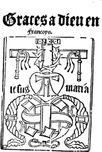 Le dit en François Illustration avec le signe franciscain du TAU